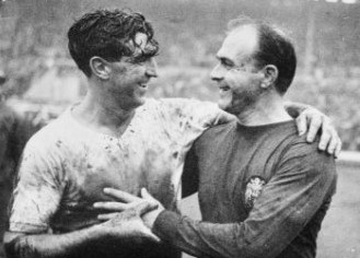 Rest of the World versus England to celebrate FA's 100th Anniversary